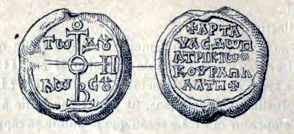 Seal of the Byzantine general and usurper (742-742) Artabasdos